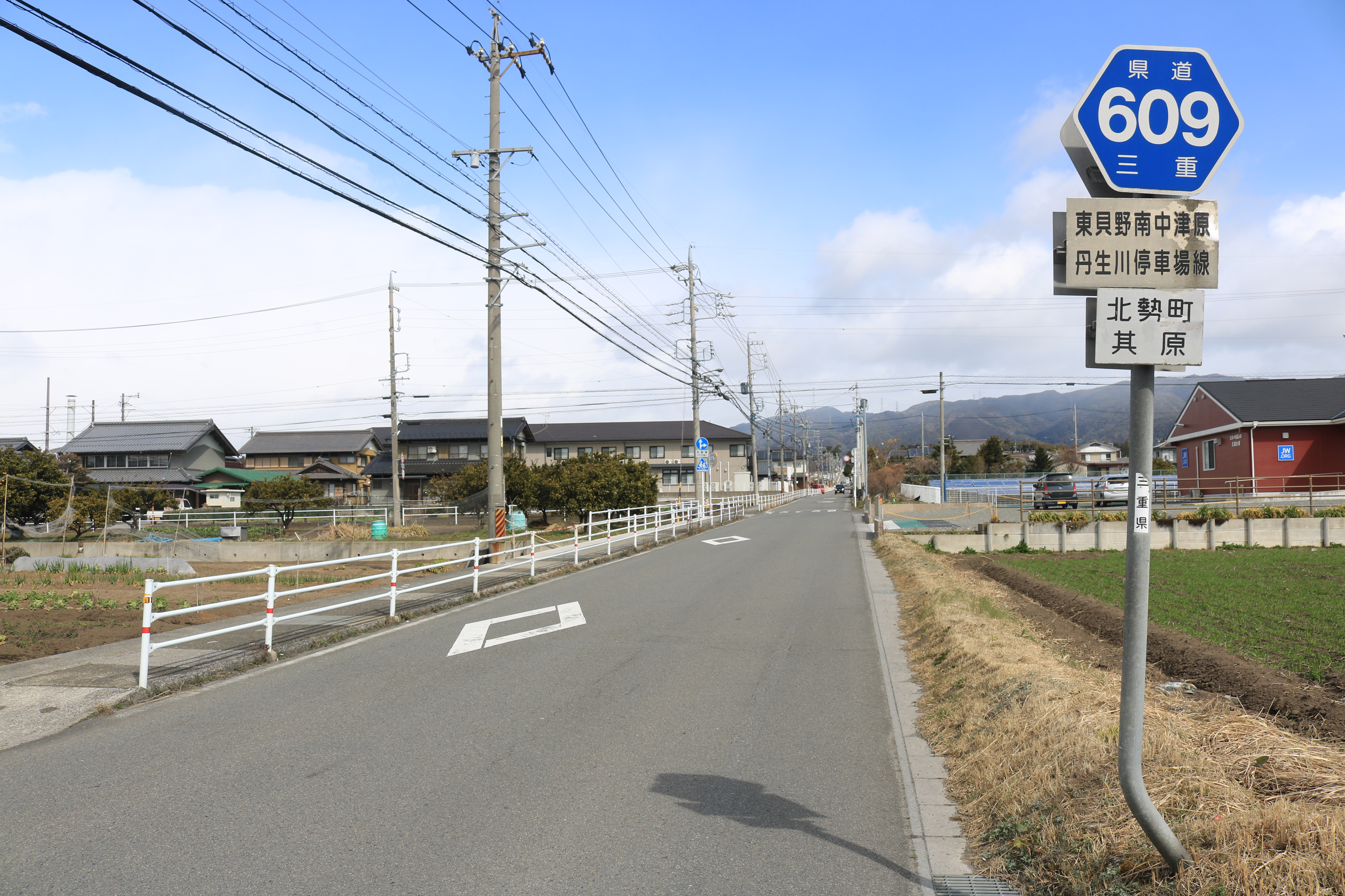 Mie Prefectural Road Route 609 in Sonohara, Hokusei-cho, Inabe, Mie prefecture, Japan.